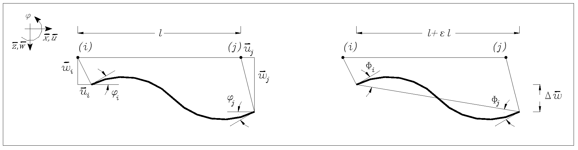 Local deformation modes of a beam